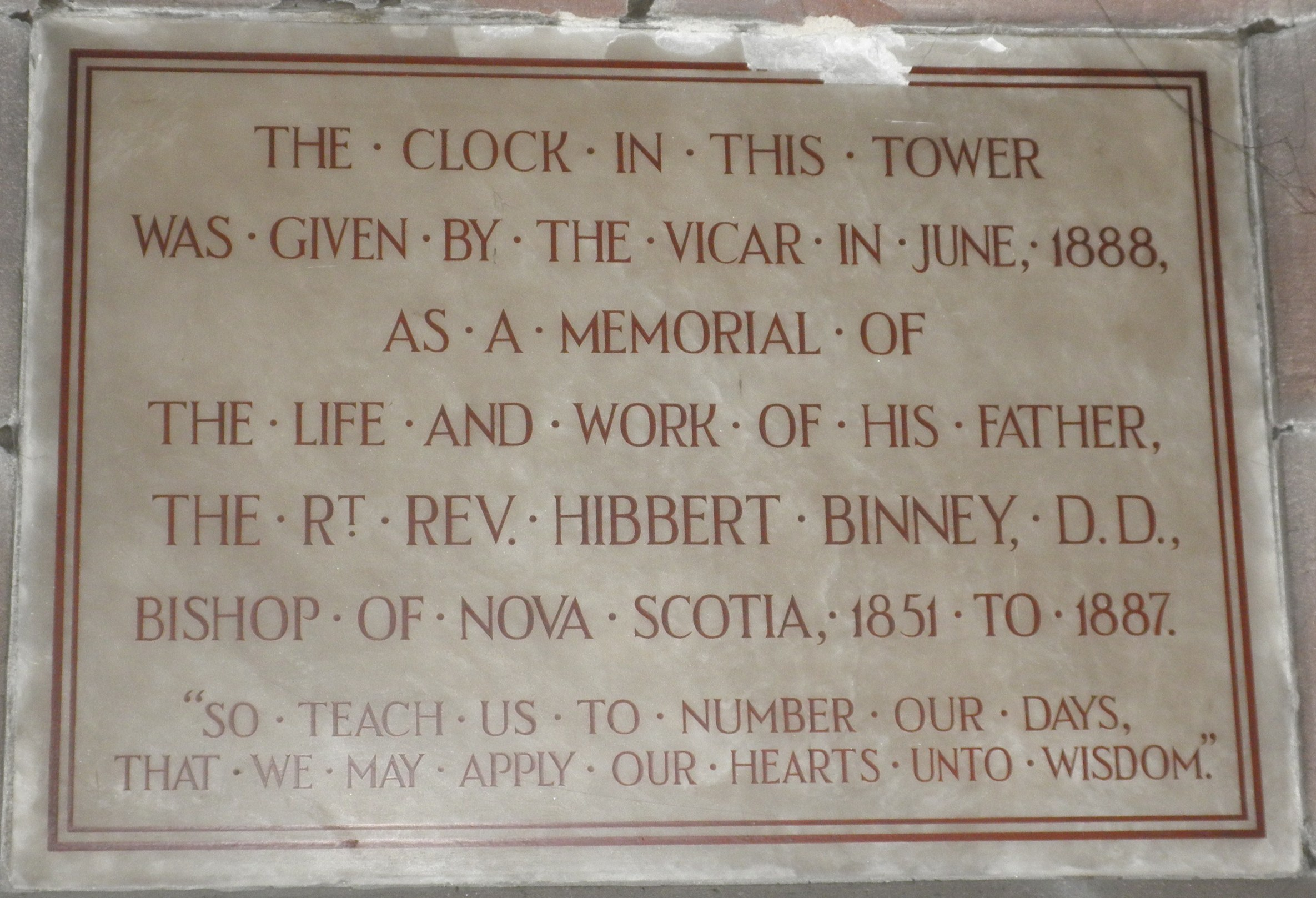 Monument in St Helen's parish church, Witton, Northwich, Cheshire, detailing the dedication of a turret clock to the memory of Rt. Rev. Hibbert Binney, D.D., former bishop of Nova Scotia (1851-1887). Clock given by his son, the Vicar of St Helen's, Witton.